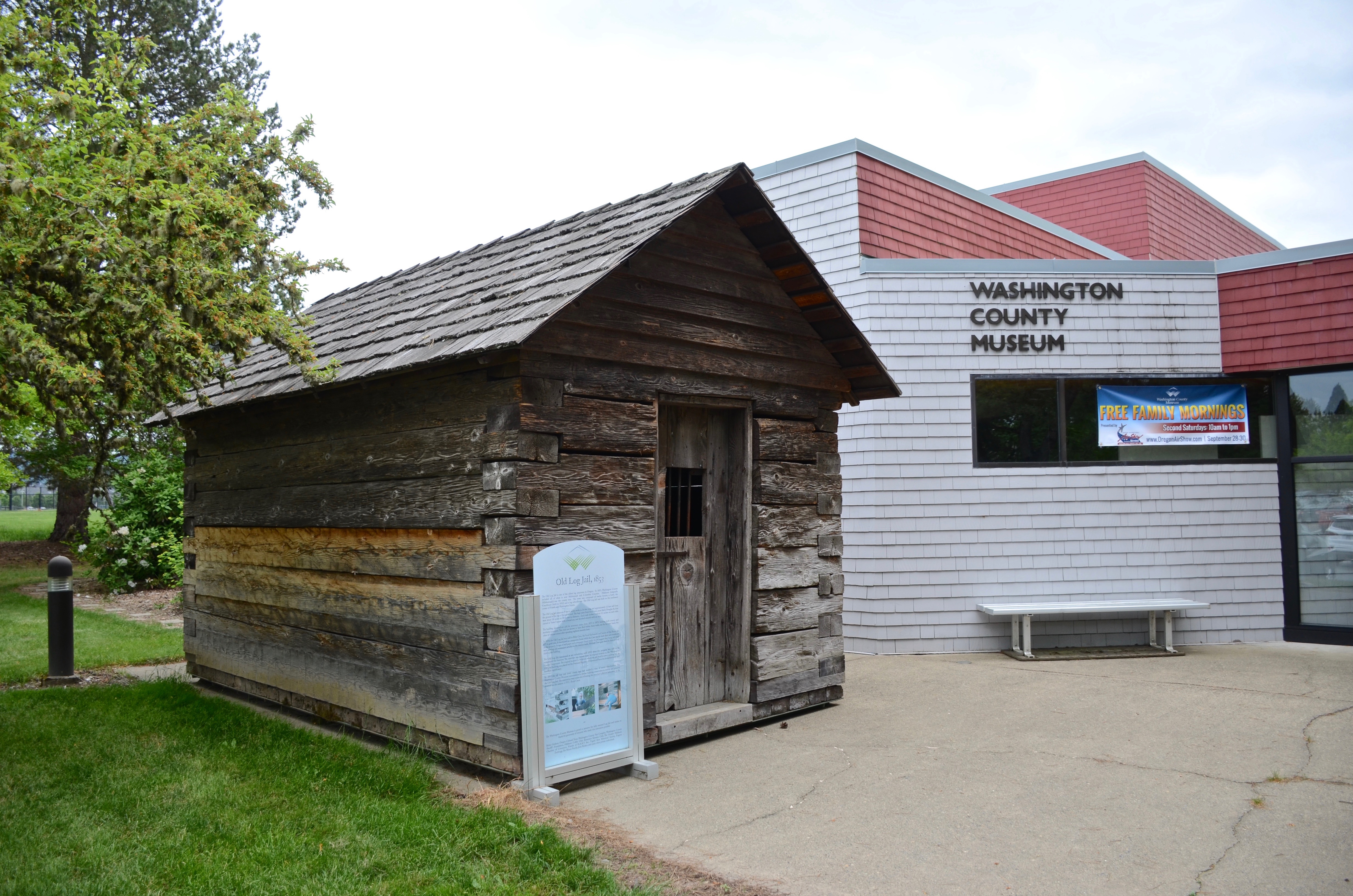 The old Washington County Jail, a log building that was in use as a jail from 1853 to 1870, in front of the Washington County Museum, on Portland Community College's Rock Creek Campus.